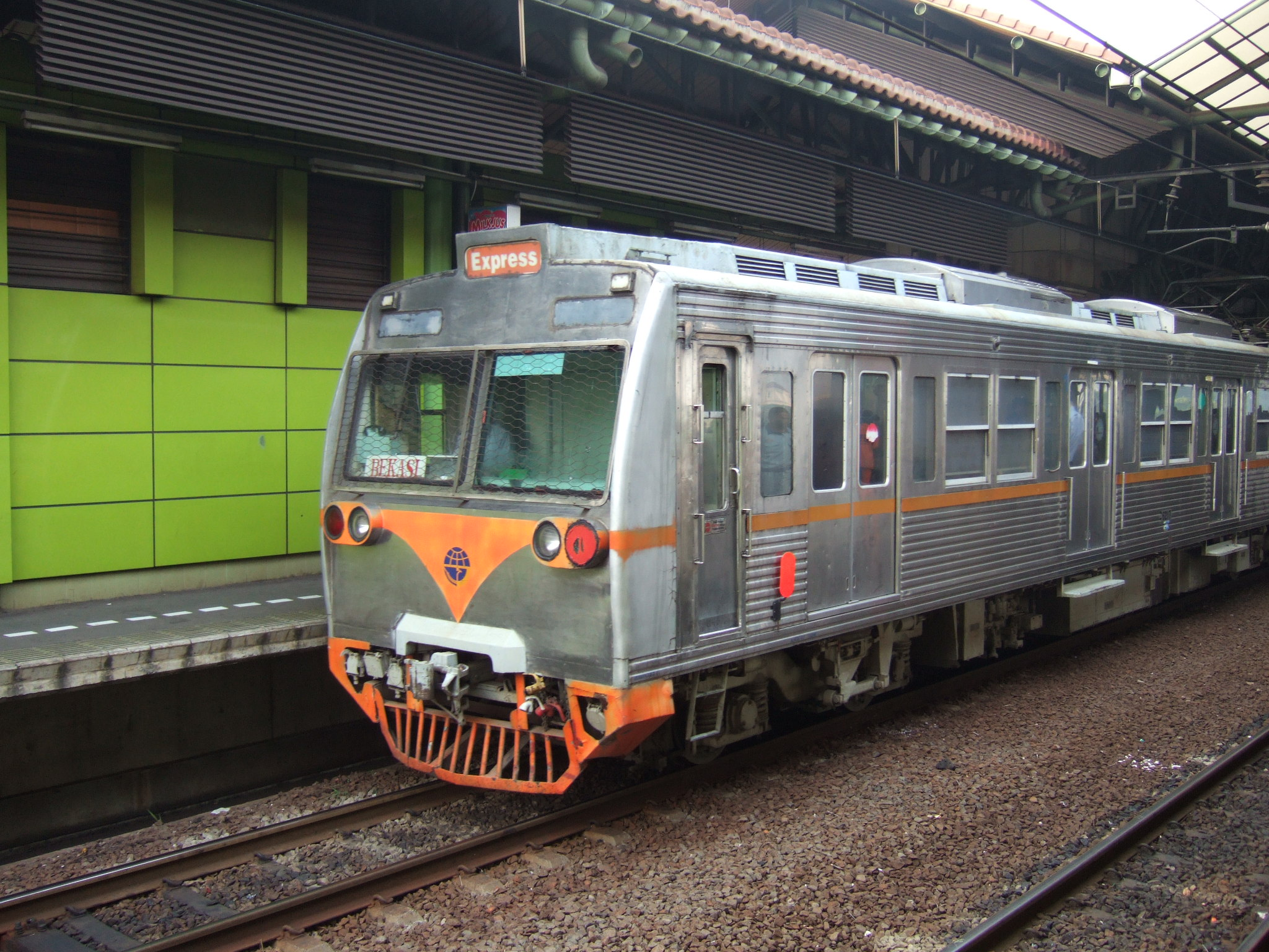 Bekasi Express (air-conditioned train connecting Bekasi-Jakarta Kota)